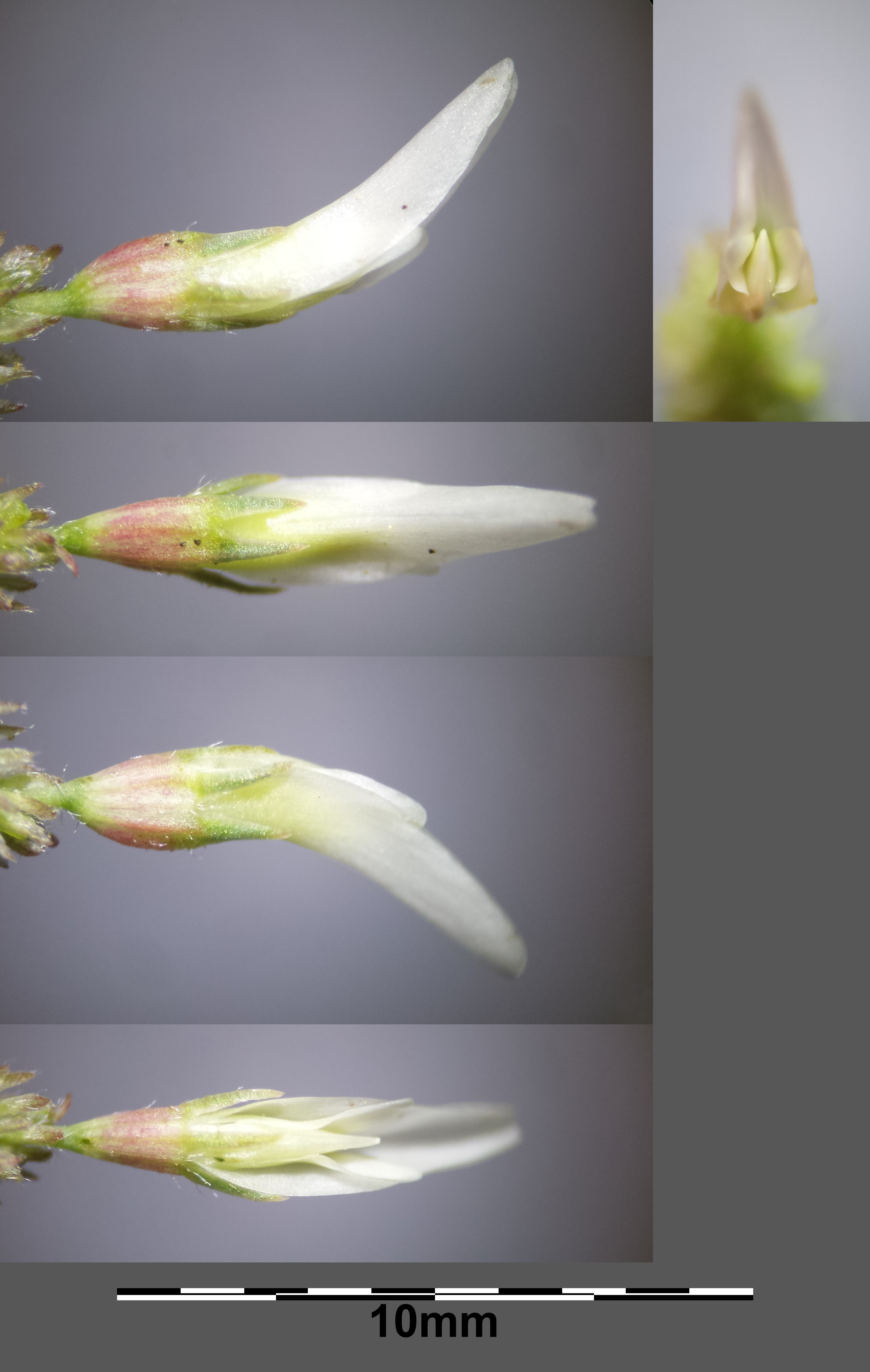 Flower Taxonym: Trifolium montanum (subsp. montanum) ss Fischer et al. EfÖLS 2008 ISBN 978-3-85474-187-9 Location: Kogelberg, Straning-Grafenberg, district Horn, Lower Austria - ca. 300 m a.s.l. Habitat: dry grassland